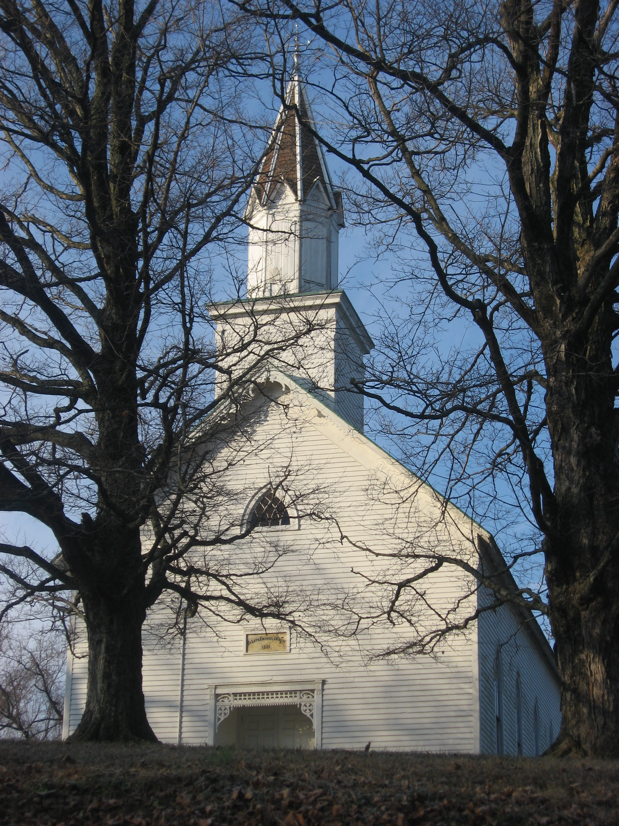 Northern side and front of the former Evangelische Lutherische Emanuels Kirche, located along E600N northwest of Dubois in Harbison Township, Dubois County, Indiana, United States. Built in 1901, the church and its cemetery are listed on the National Register of Historic Places.